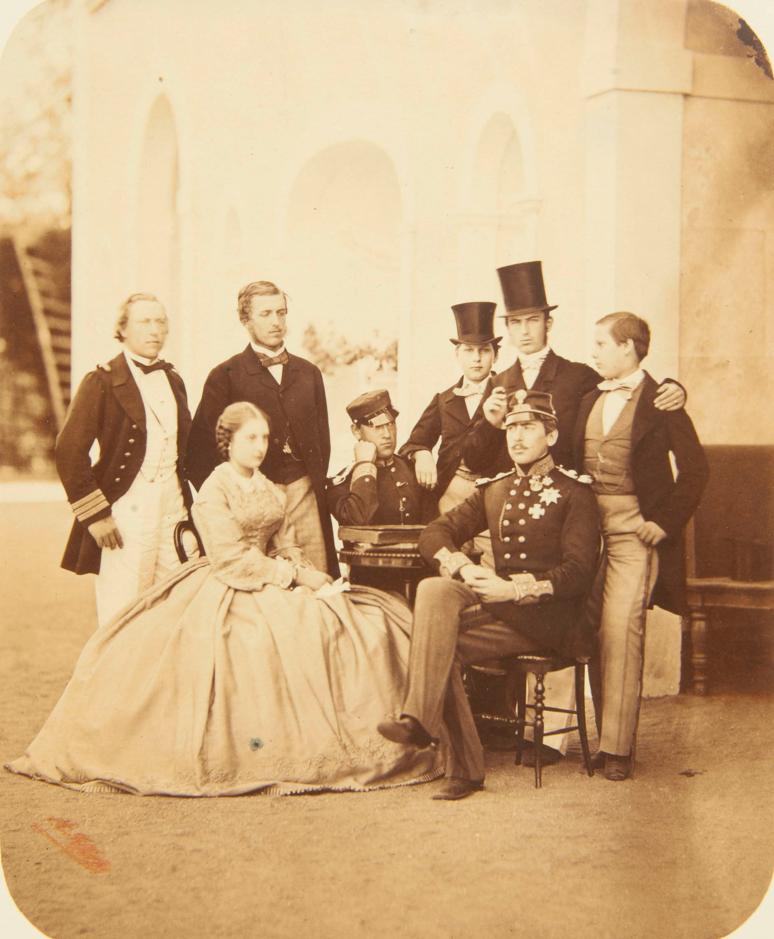 Group photograph of members of the Portuguese Royal Family in 1861. Standing: Dom Louis, Duke of Oporto (1838-89), Prince Leopold of Hohenzollern (1835-1905); Dom Joao (1842-61) Prince of Portugal; Dom Augusto (1847-89); Prince Charles of Hohenzollern (1839-1914); Dom Ferdinando (1846-61). Seated: Infanta Donna Antonia (1845-1913); and King Pedro V of Portugal (1837-61).